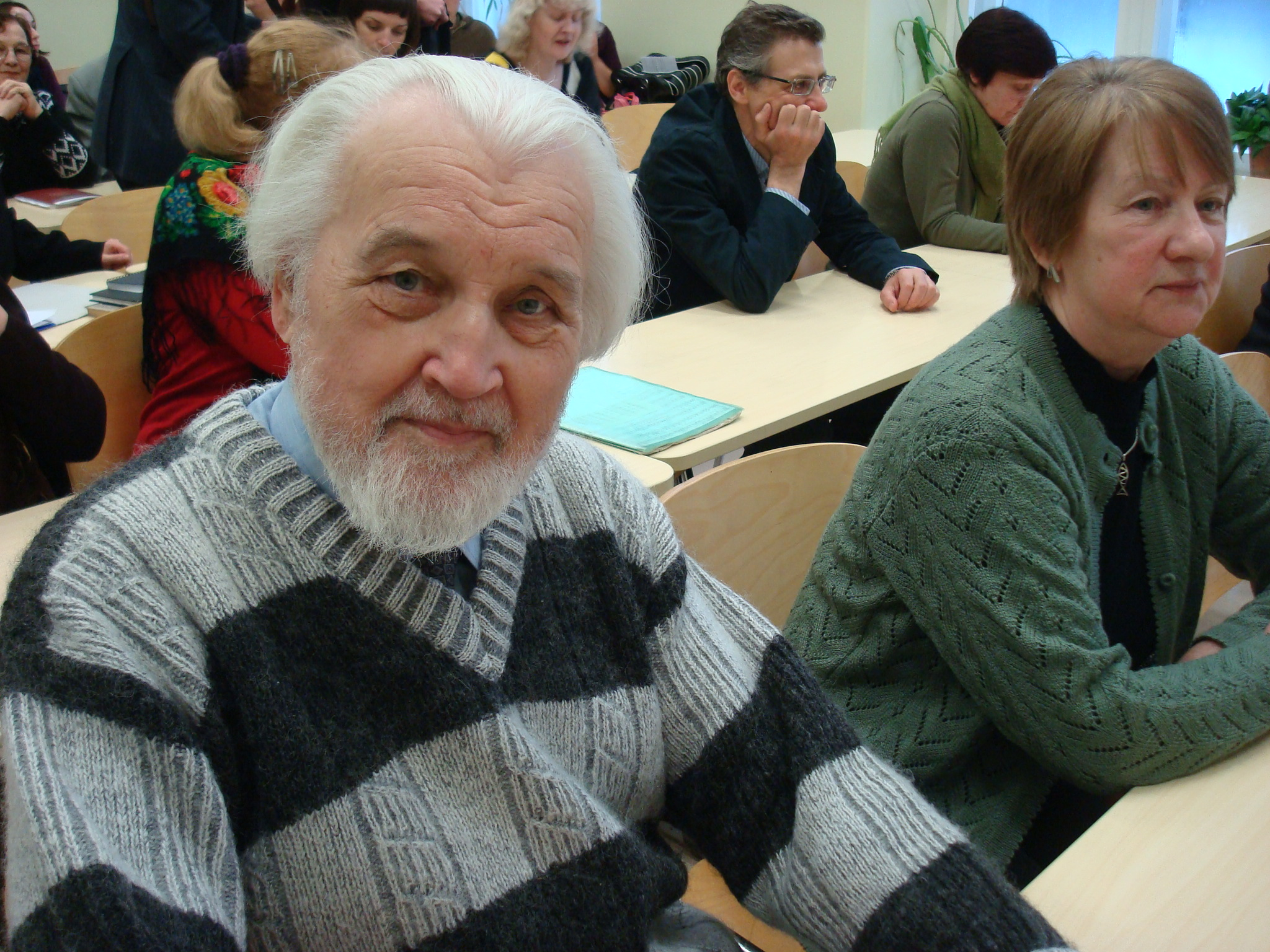 Sergei Issakov (born 1931) is an Estonian literature researcher, Member of Estonian parliament 1995-1999